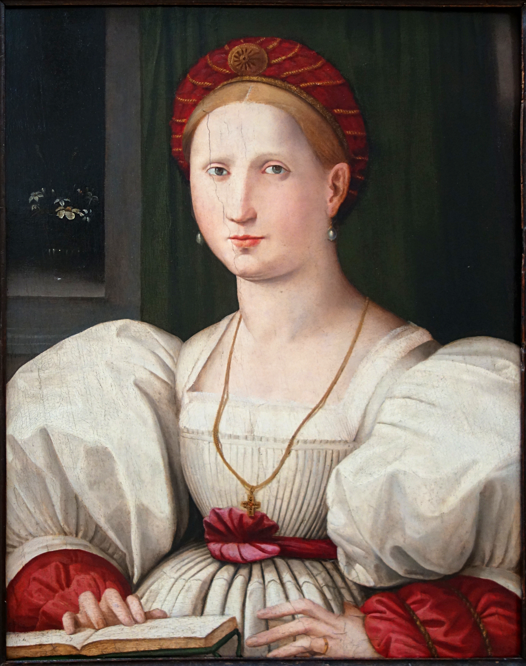 Portrait of a Woman